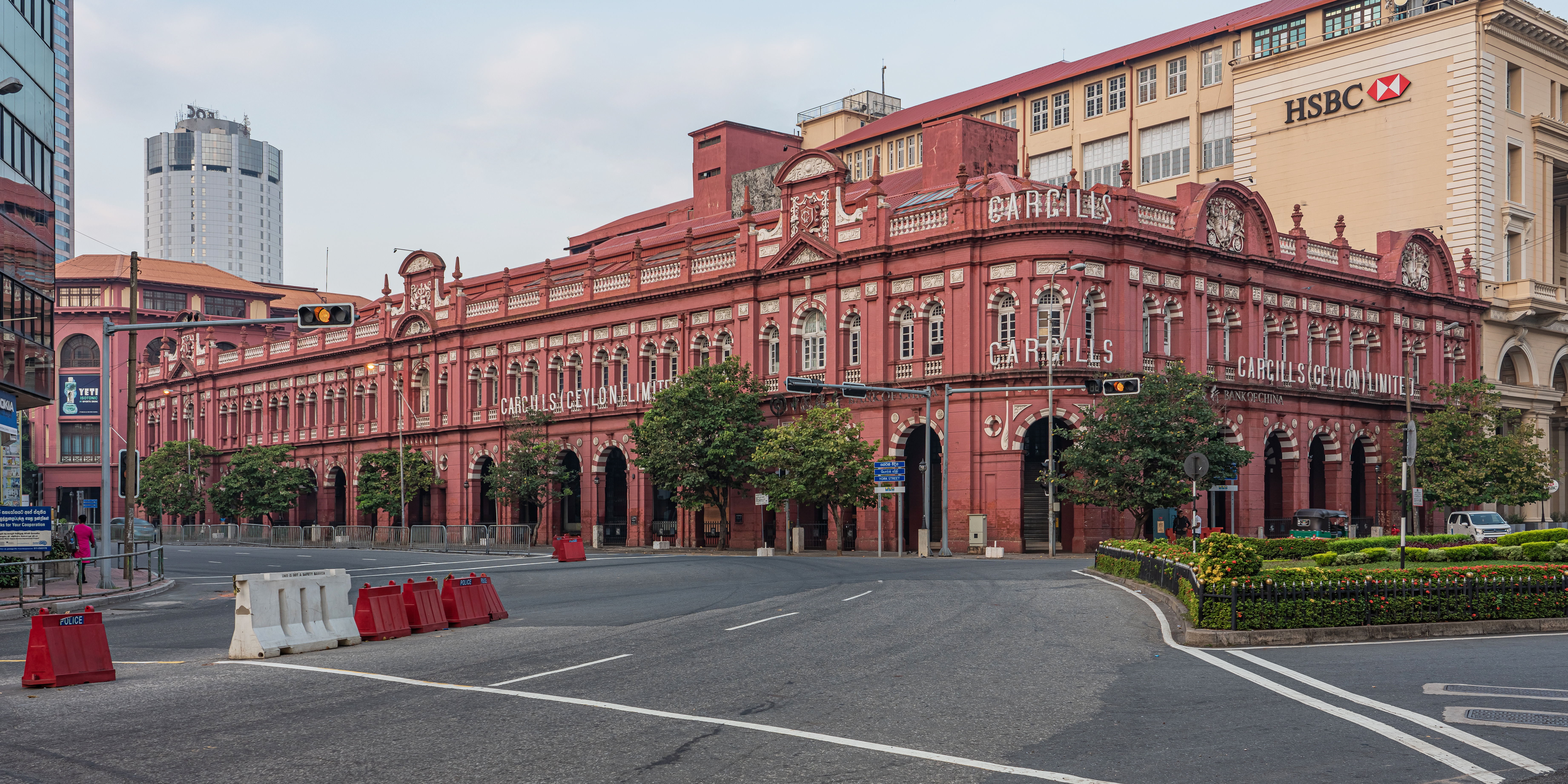 Colonial architecture (Cargills (Ceylon) Building) in Colombo, Sri Lanka